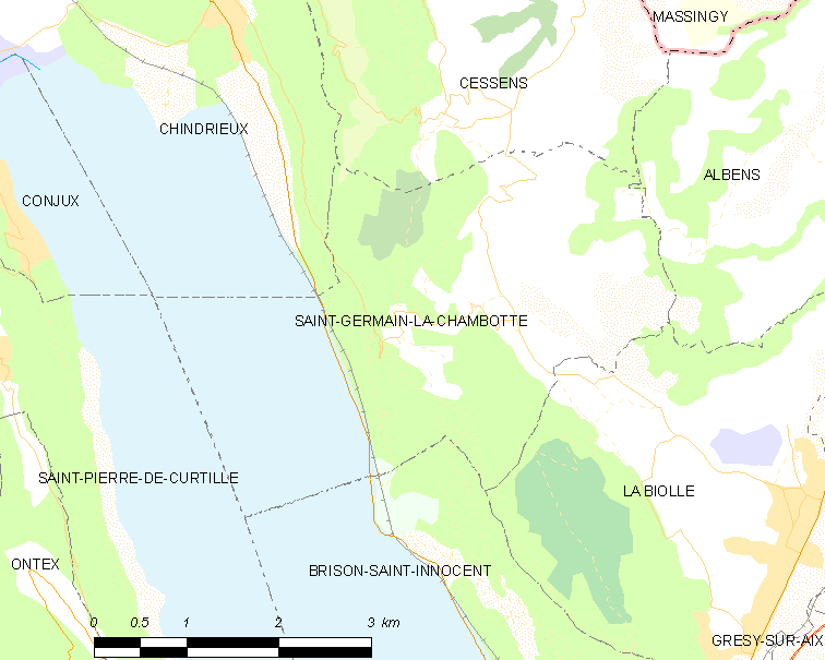 Map of French municipality